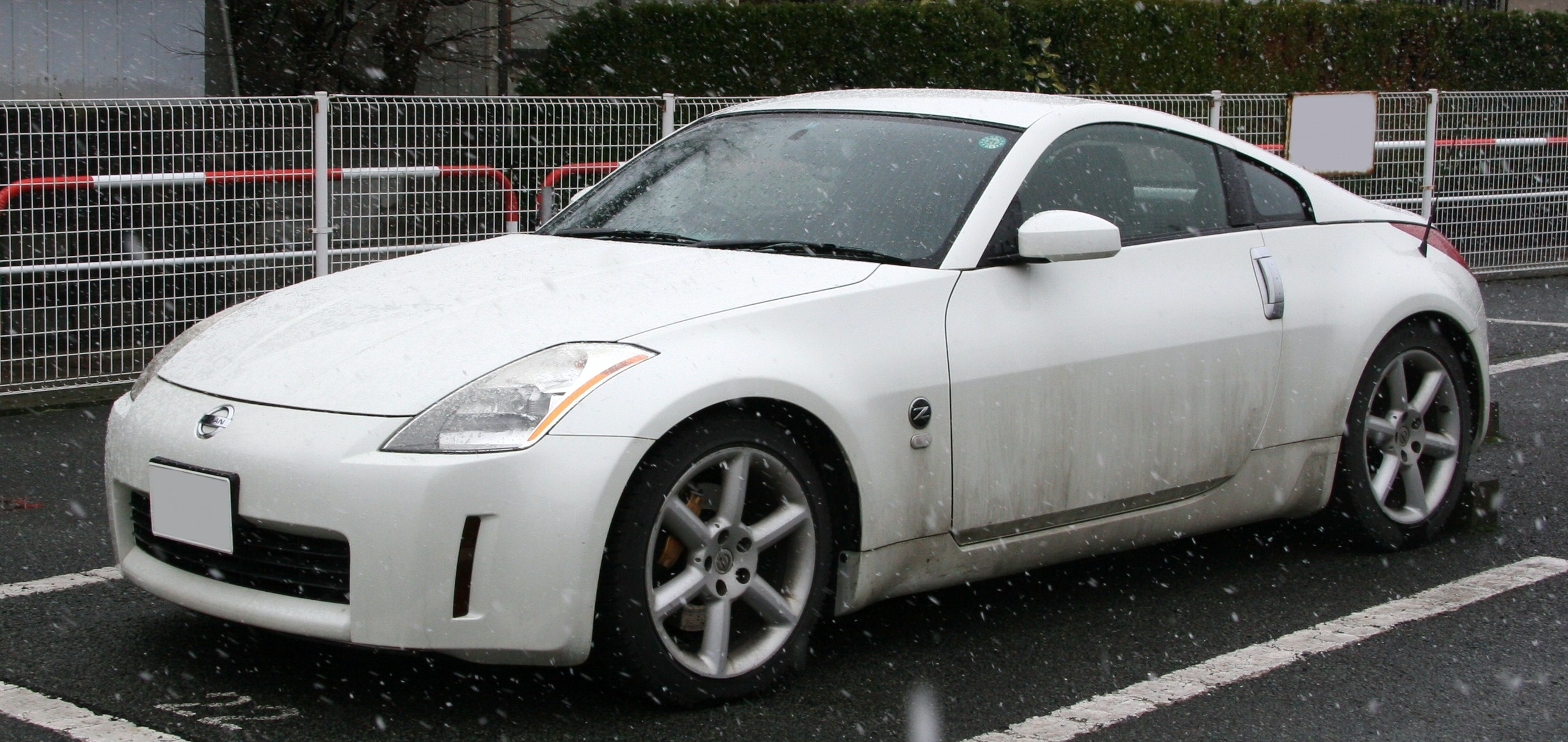 NISSAN FAIRLADY Z